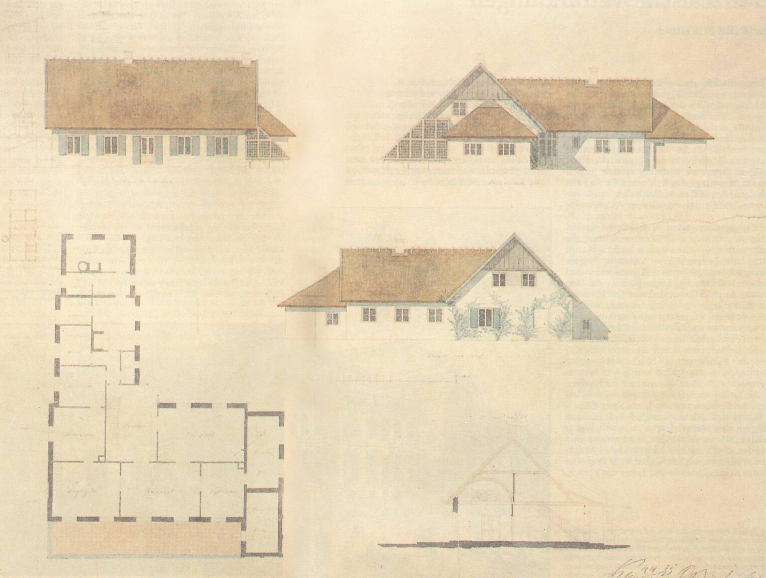 Drawings for Villa Sollie (1855-56), a house outside Flensburg commissioned by railway director Christian M. Poulsen.